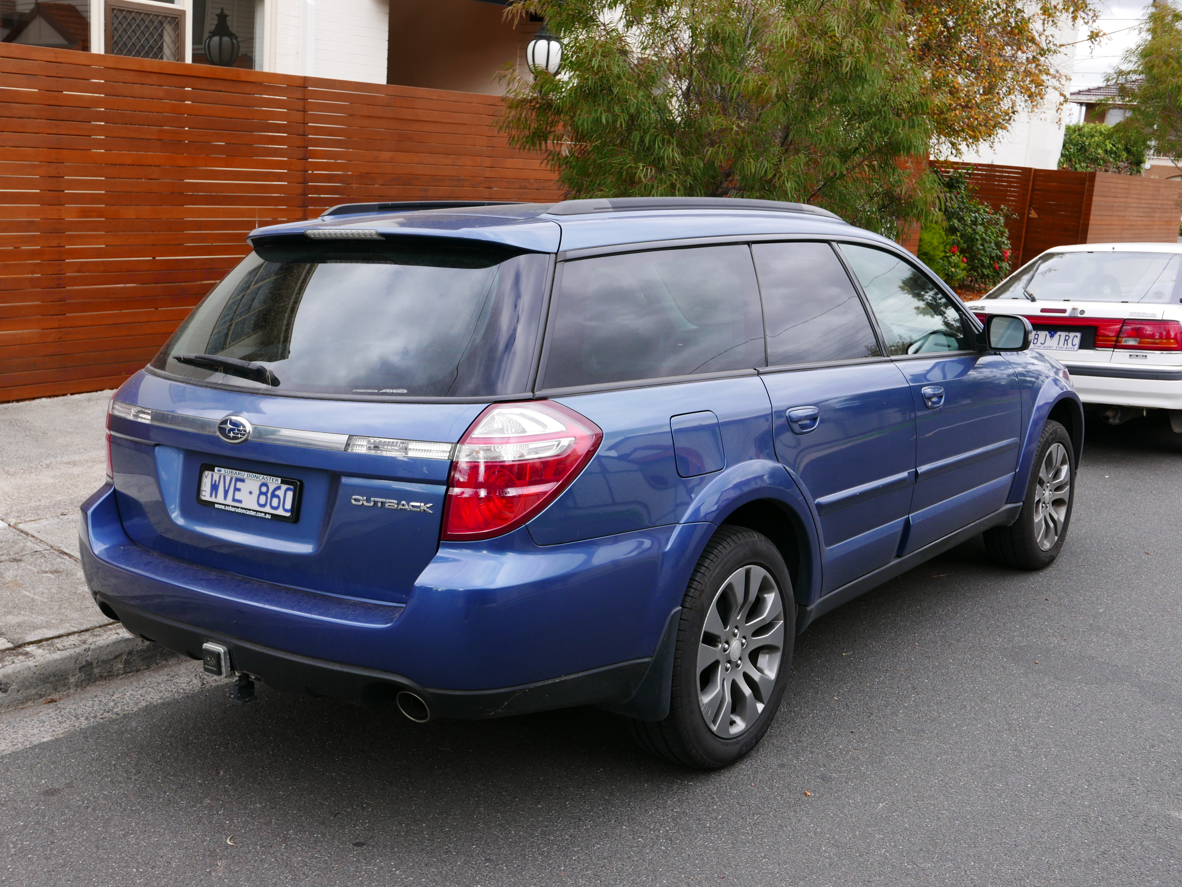 2008 Subaru Outback (MY09) 3.0R station wagon. Photographed in Northcote, Victoria, Australia. Vehicle registration enquiry resultsJurisdictionVictoriaRegistrationWVE860Chassis codeJF2BPEKUA9G078815Engine codeU300373Compliance date2008-11Year of manufacture2009 (not a typo)